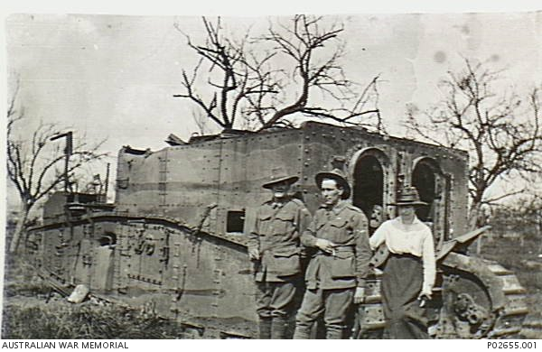 From AWM caption : Villers-Bretonneux, France. 1919. Two Australian soldiers act as escort to an unknown woman on a visit the battlefields. The Gun-Carrier tank was damaged during the Battle of Amiens in 1918.